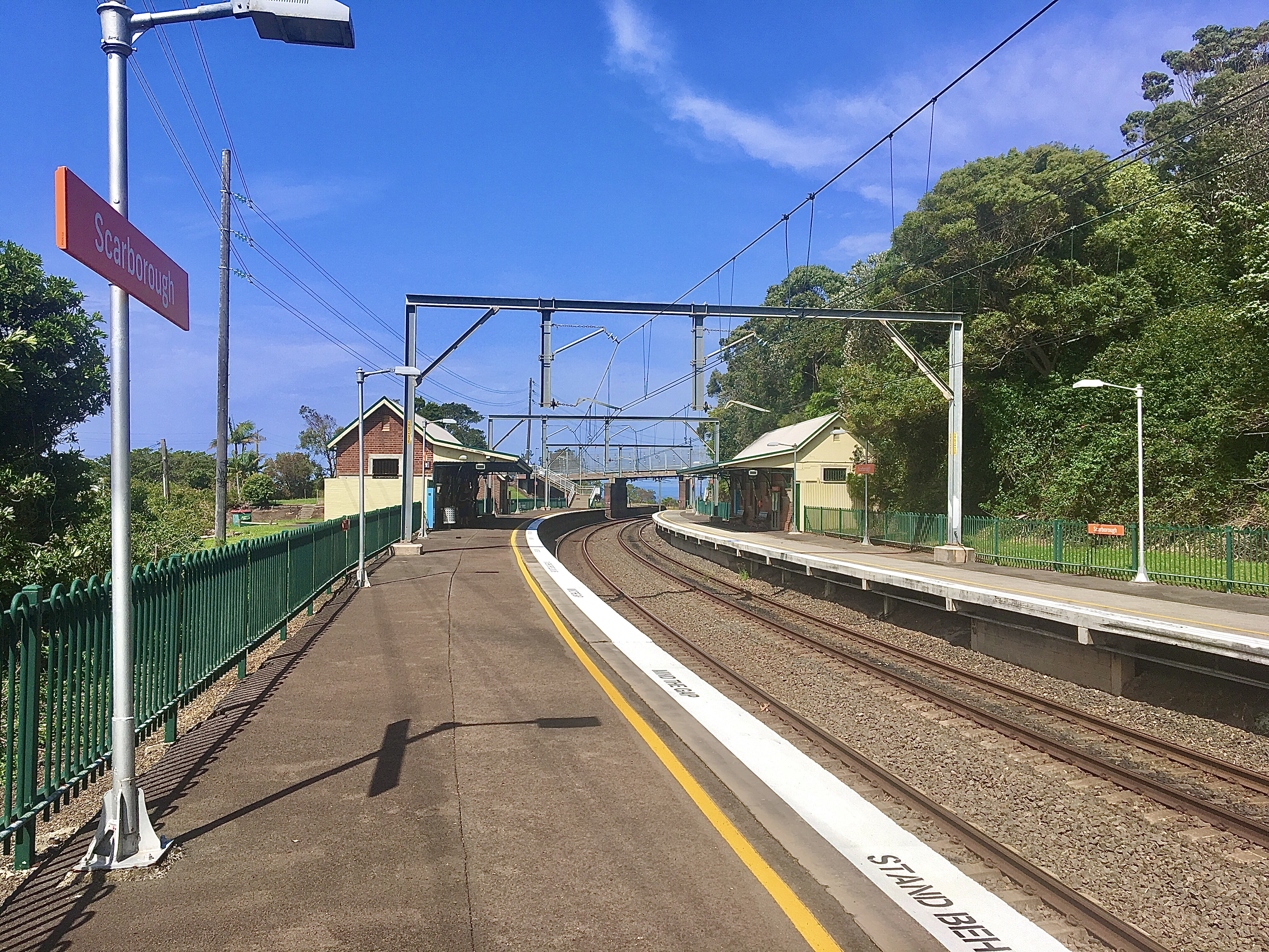 Scarborough railway station, New South Wales